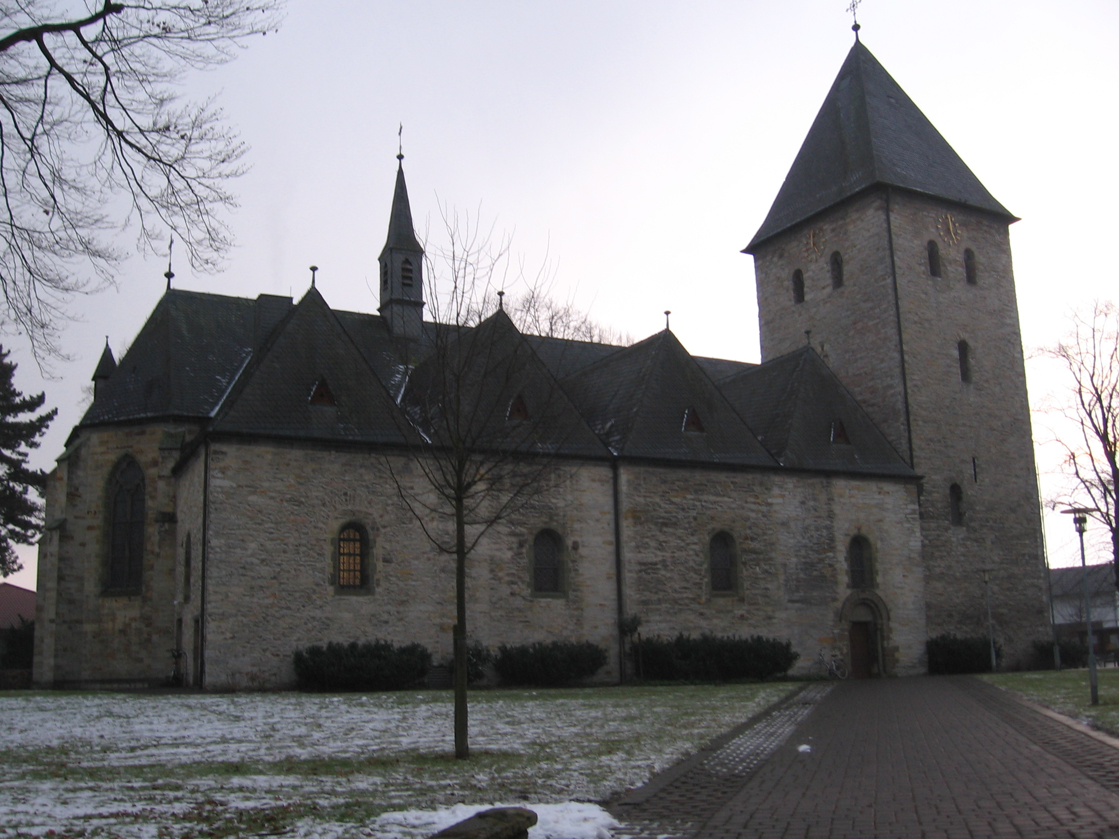 St. Laurentius Church in Thüle near Salzkotten, Germany.